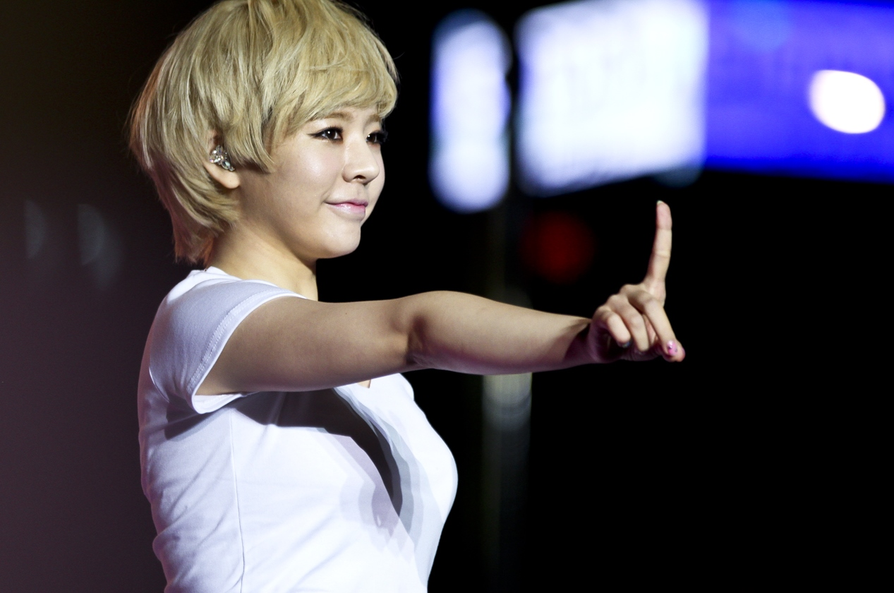 Sunny at Gangnam Hallyu Festival on October 7, 2012.